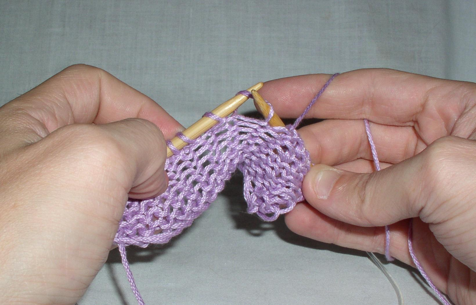 Purling (English or "right-hand" style), step 2: open loop (exaggerated). Photo taken by me, of me, in August 2005. Second in a series (previous, next).